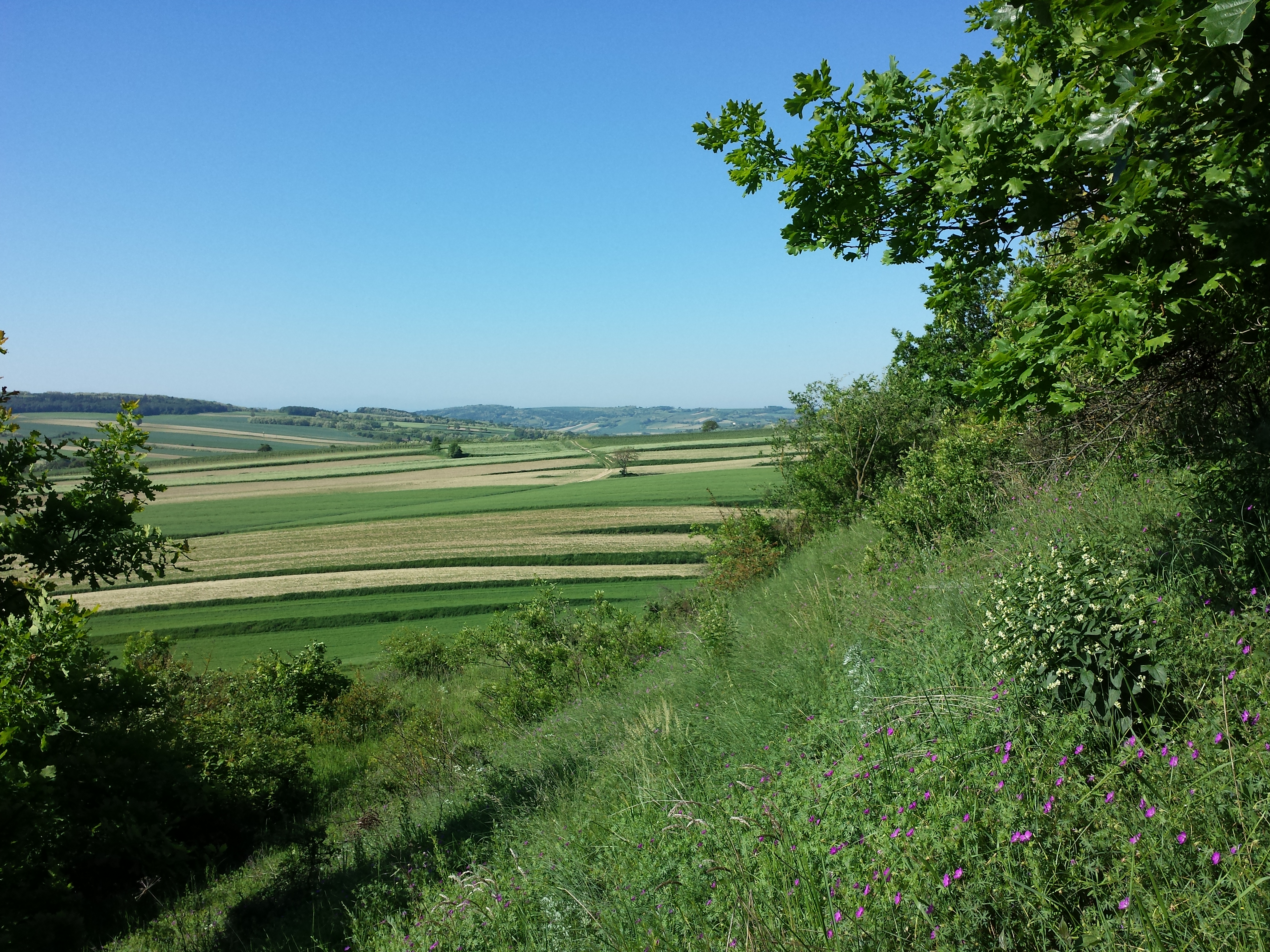 Habitat Taxonym: Geranium sanguineum and Vincetoxicum hirundinaria (subsp. hirundinaria) ss Fischer et al. EfÖLS 2008 ISBN 978-3-85474-187-9 Location: semi-dry grasslands and wine yards to the north of Oberthern, municipality Heldenberg, district Hollabrunn, Lower Austria - ca. 300 m ü. A. Habitat: border of a shrubbery